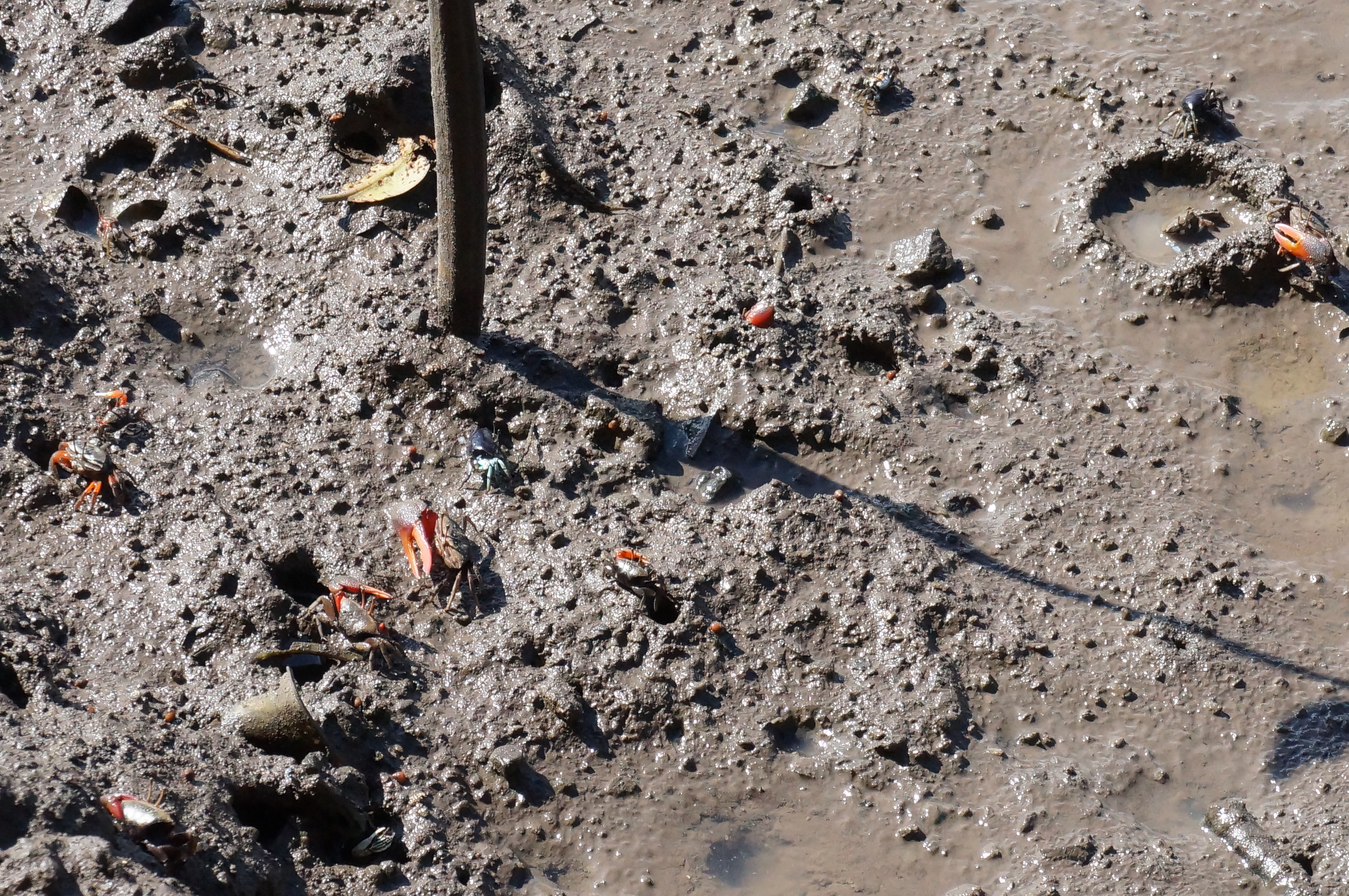 Mangrove crab